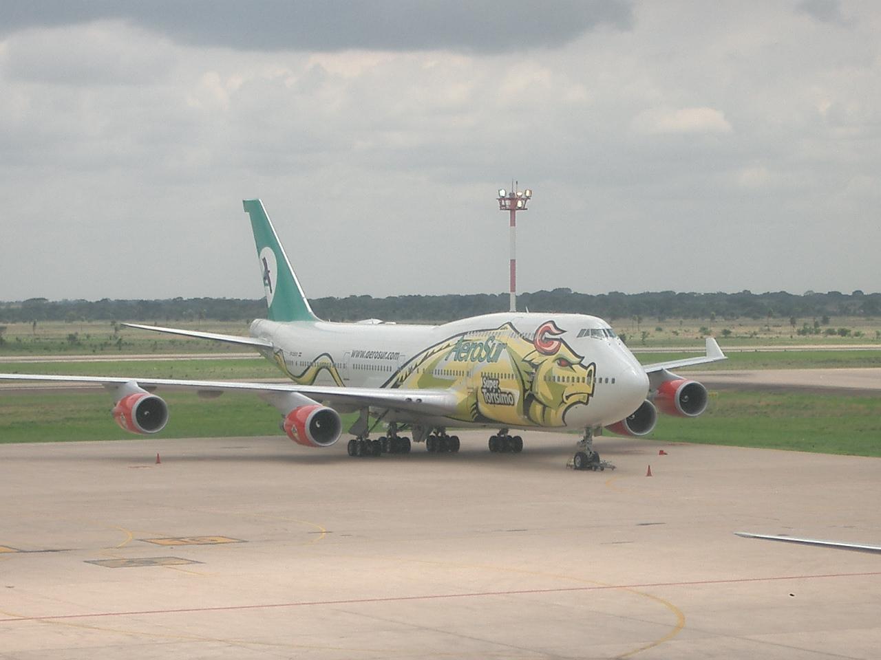 Boeing 747-400 denominated Súper Torísimo of Aerosur at Viru Viru International Airport.